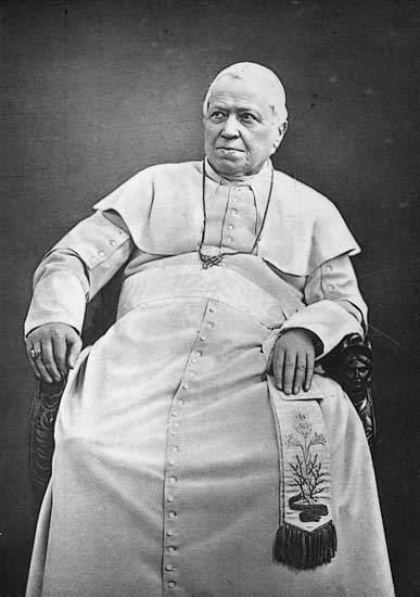 Portrait of Pope Pius IX.